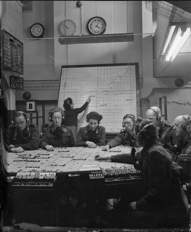 The Royal Observer Corps, 1939-1945. Personnel at work in the ROC Centre at Bromley, Kent, with aircraft movements being plotted and information received being passed to RAF Fighter Command.